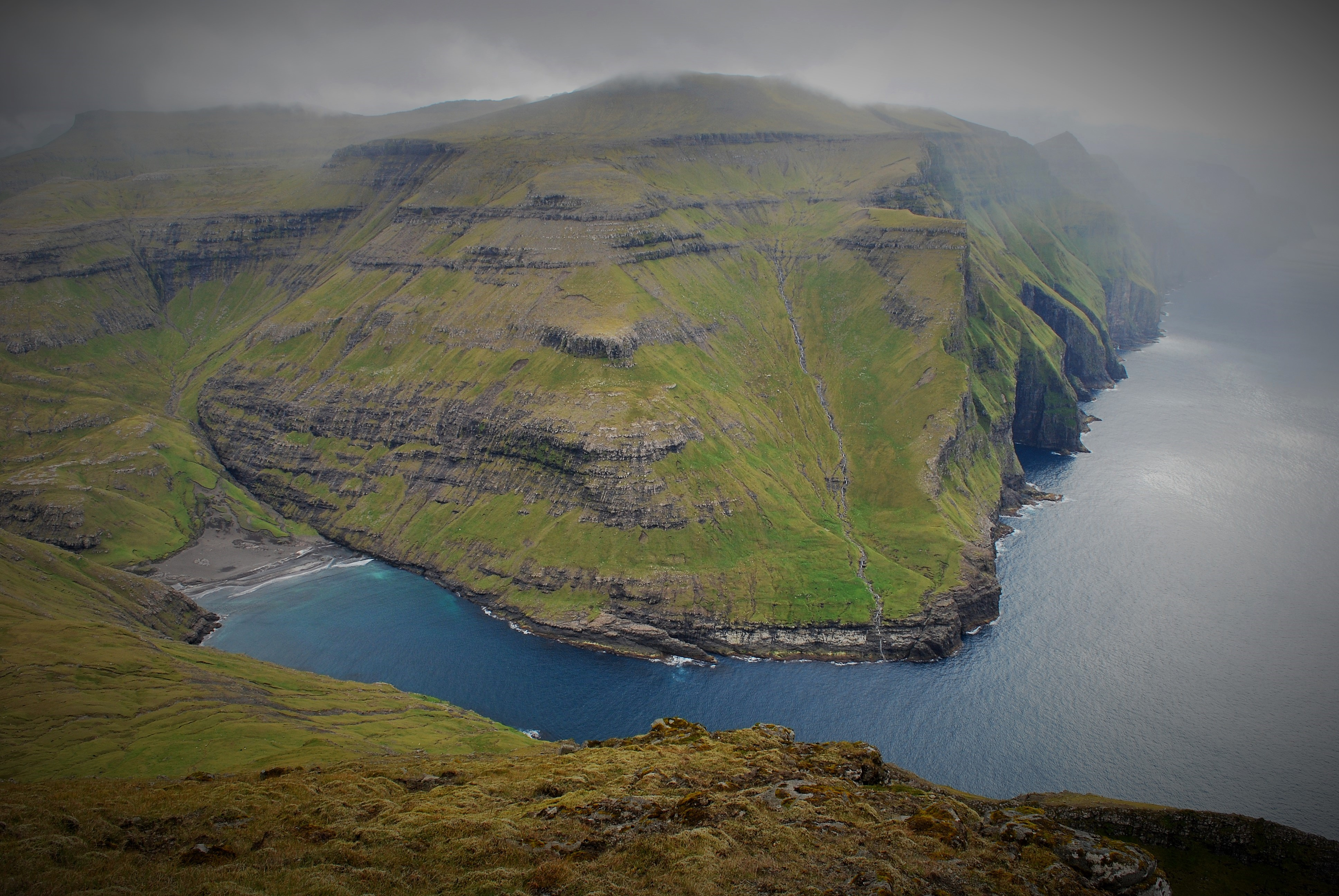 Saksun lies near the northwest coast of the Faroese island of Streymoy. .